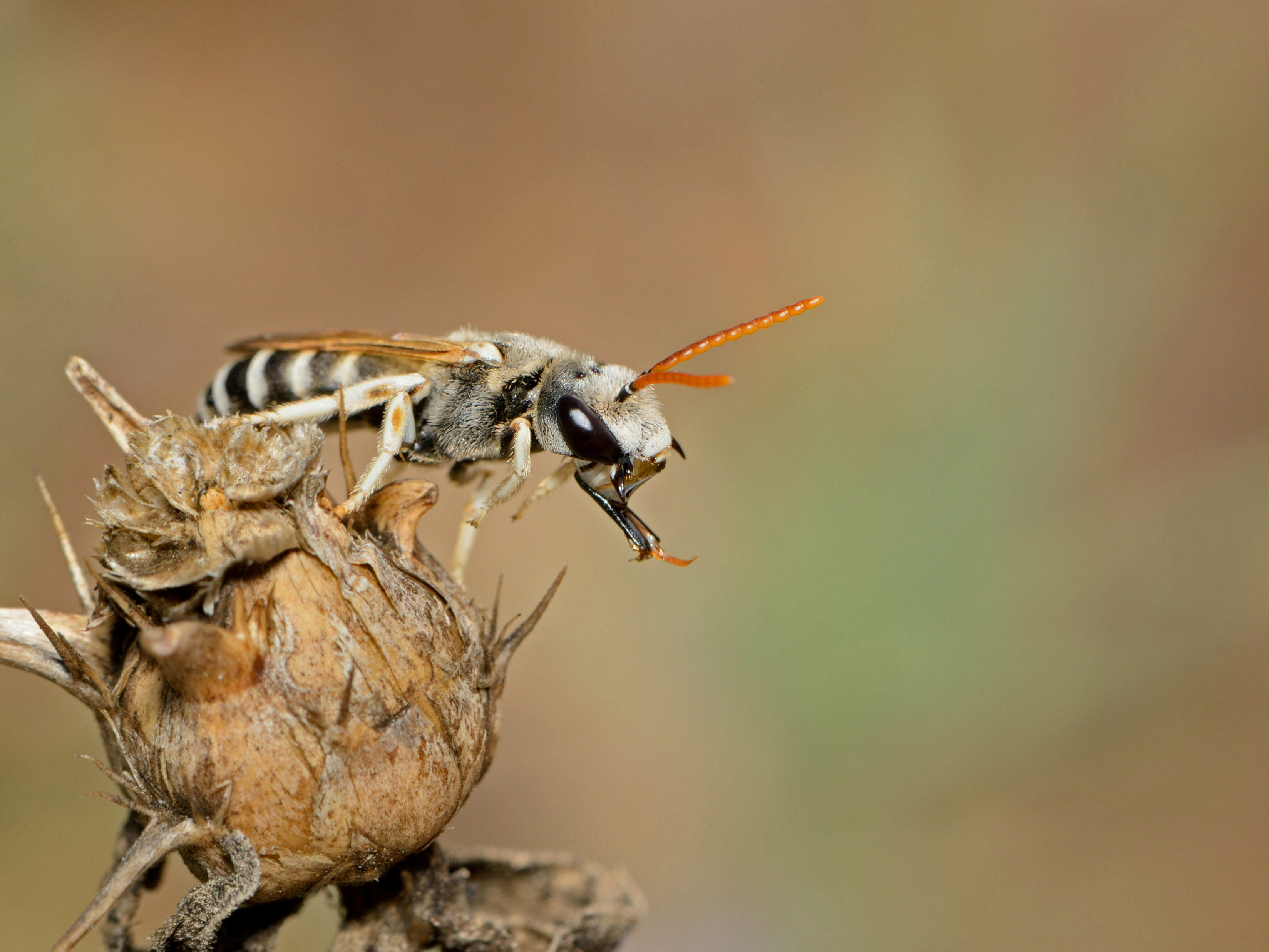 Male sweat bee (Halictus tetrazonianellus Strand, 1909) extending its mouthparts. Taken on Mount Carmel, Israel, August 13, 2012.